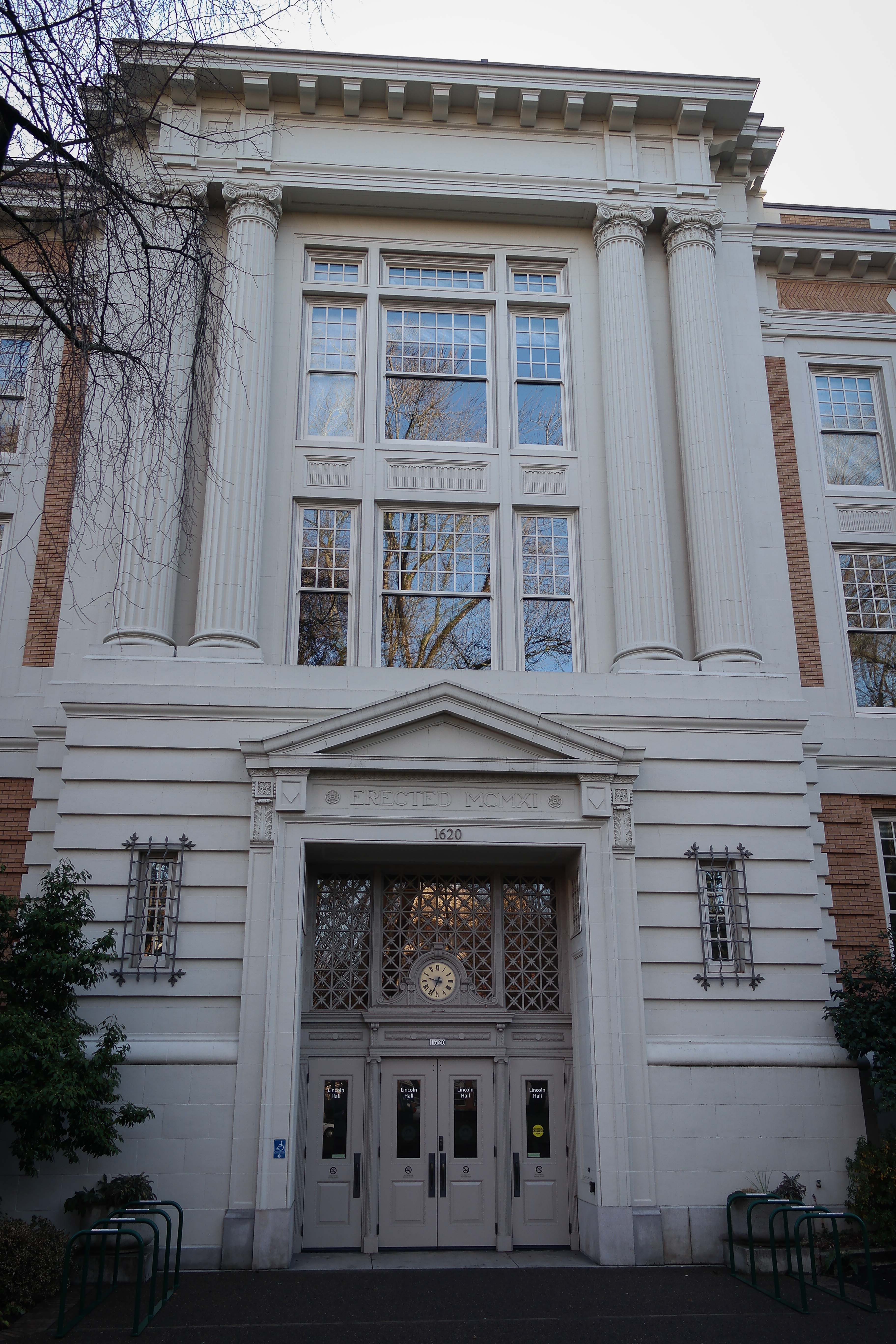 Details of Lincoln Hall at Portland State University